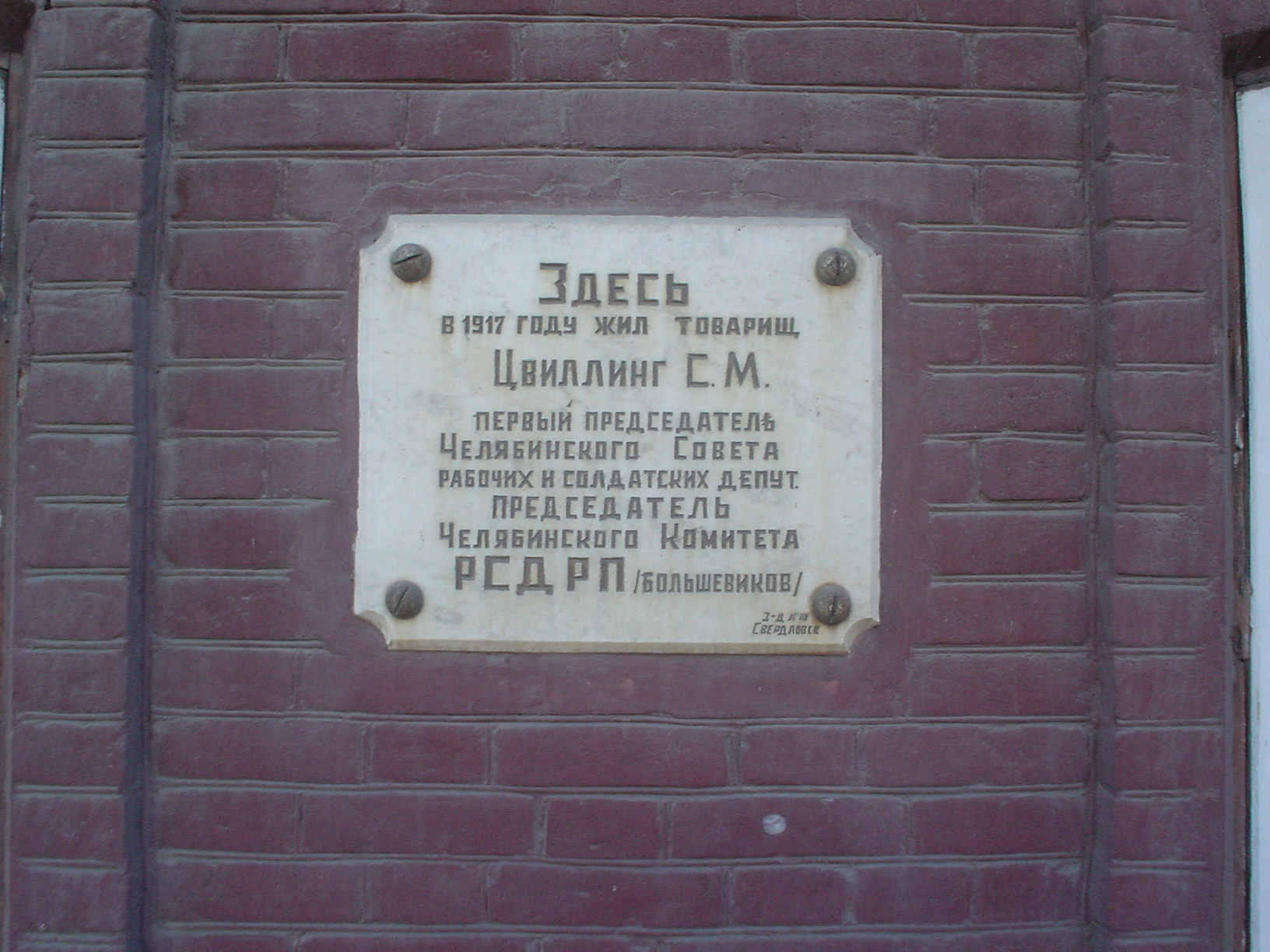 Memorial table at house, Zwilling street, Chelyabinsk, Russia